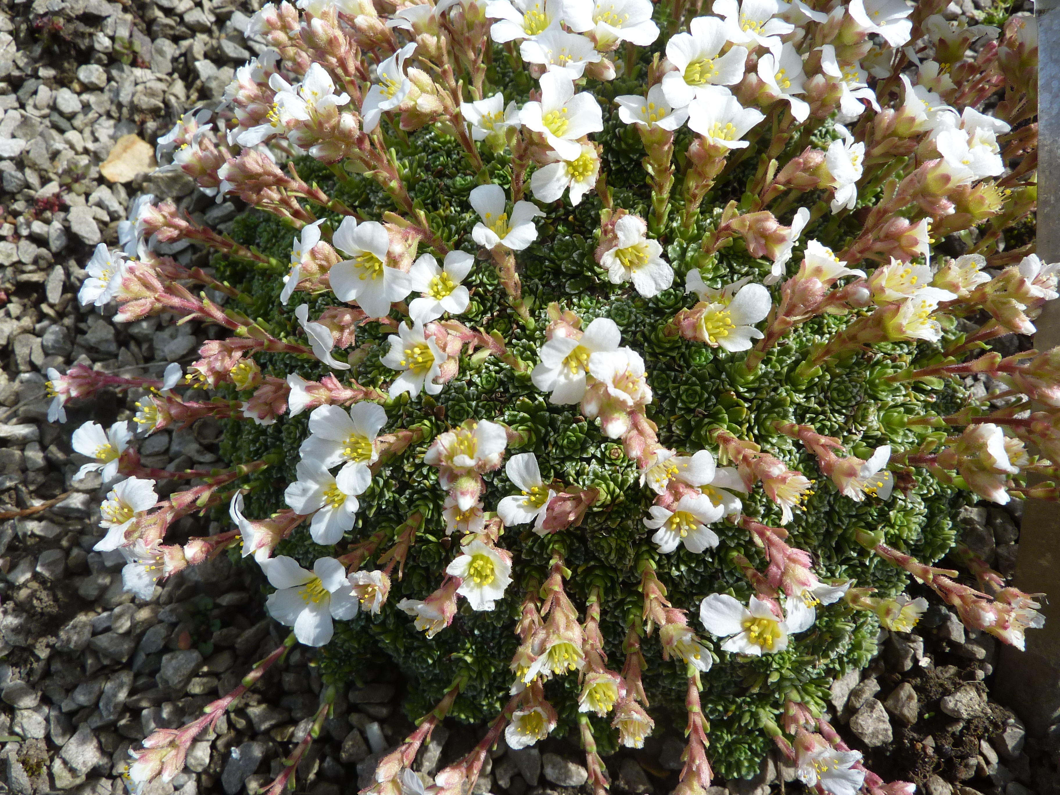 Taken in the Cambridge University Botanic Garden.